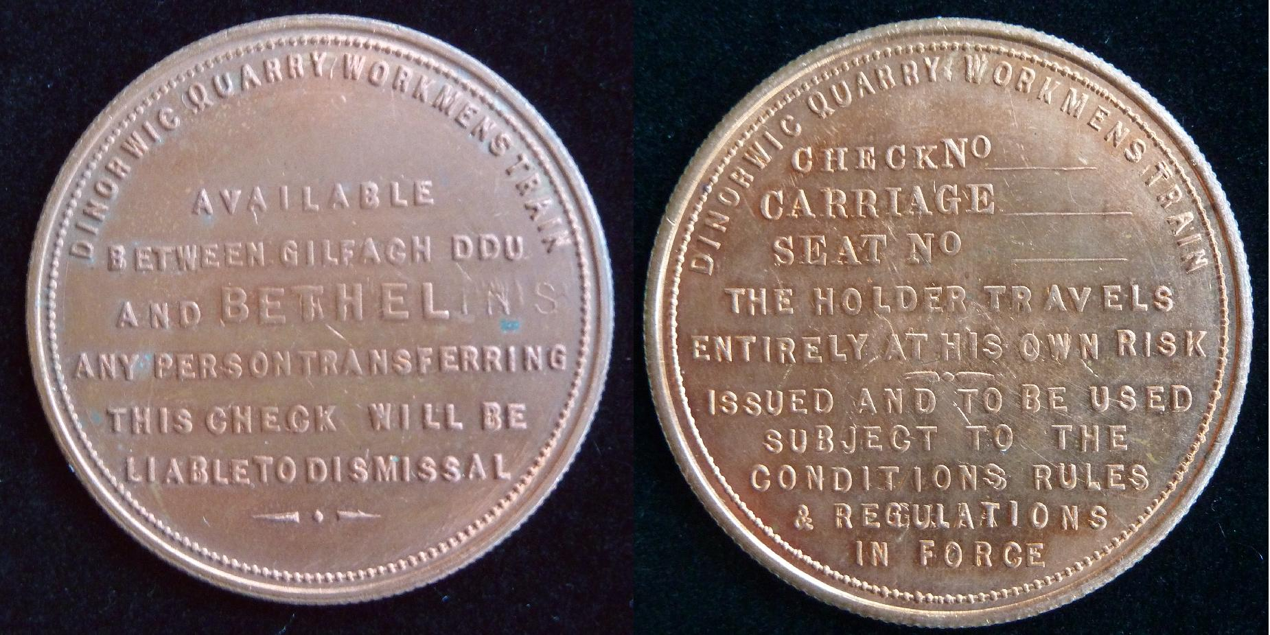 Padarn Railway workman's token